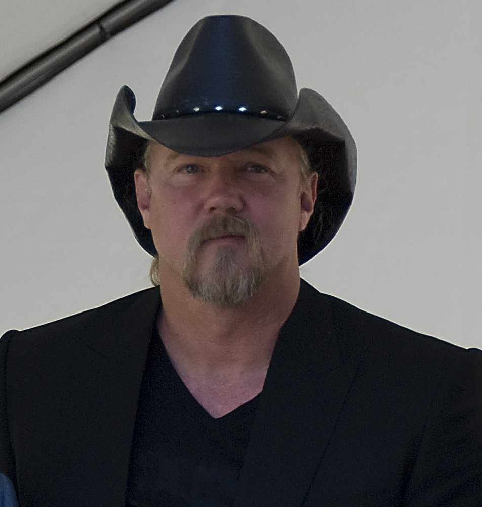 To mark the sesquicentennial anniversary of the American Civil War and create a lasting legacy of that commemoration, the Civil War Trust on June 30, 2011, announced a national campaign that will permanently protect 20,000 acres of battlefield land over the next five years. The Trust, which has already protected more than 30,000 acres at 110 battlefields in 20 states, recognizes that the war’s 150th anniversary offers an unprecedented opportunity to encourage public support for a large-scale preservation initiative. 'Campaign 150: Our Time, Our Legacy' kicked off on June 30th with an event held at the Lutheran Theological Seminary at Gettysburg (PA), a key landmark of the Civil War’s bloodiest battle. The campaign was announced by Civil War Trust chairman Henry Simpson, Pulitzer Prize-winning author of Battle Cry of Freedom James McPherson and the organization’s newest Trustee, country music superstar Trace Adkins. Image by Ron Cogswell on June 30, 2011, using a Nikon D80 and minor Photoshop effects. DSC_0169